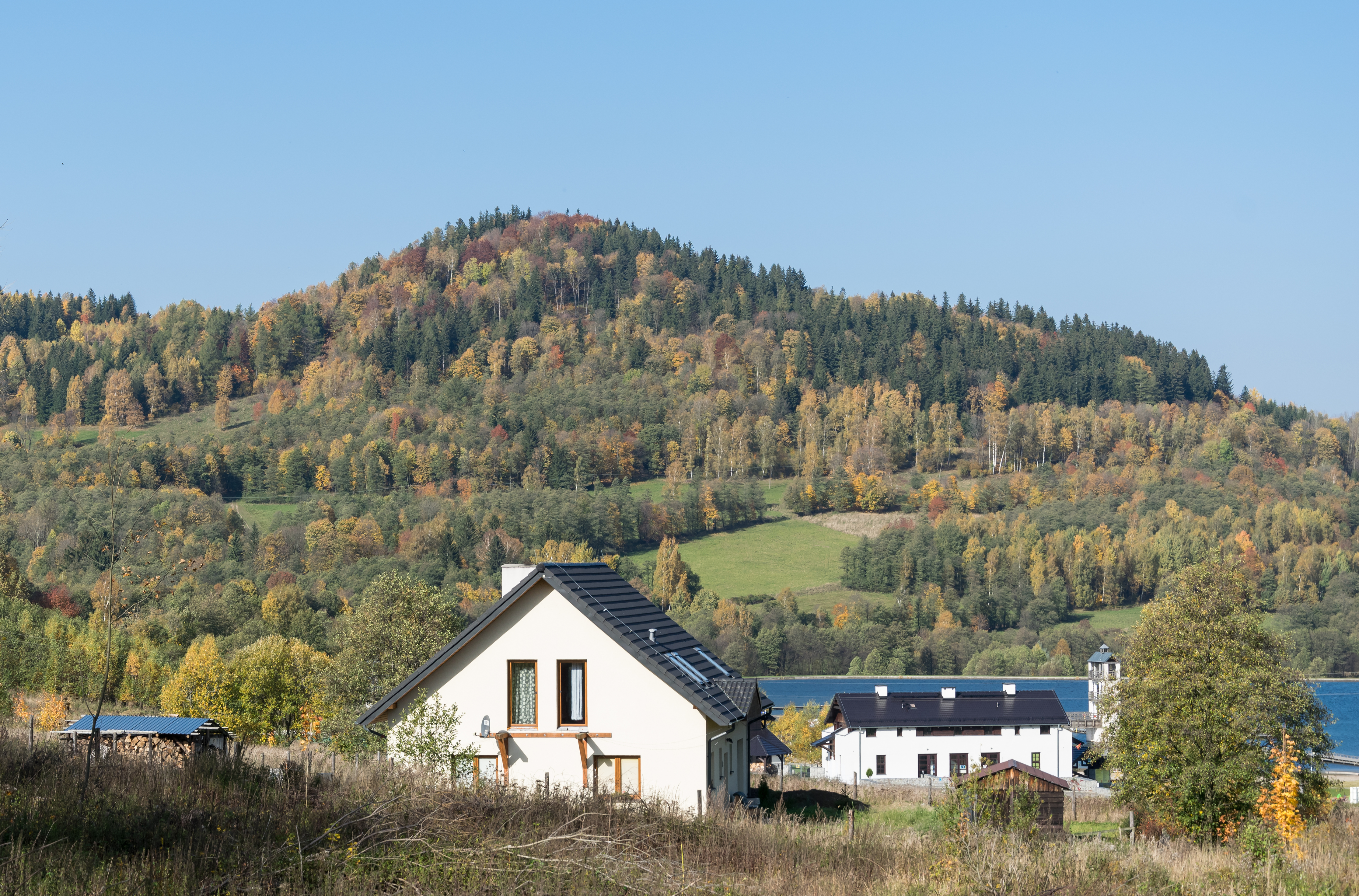 Krzyżnik, Masyw Śnieżnika, Sudetes